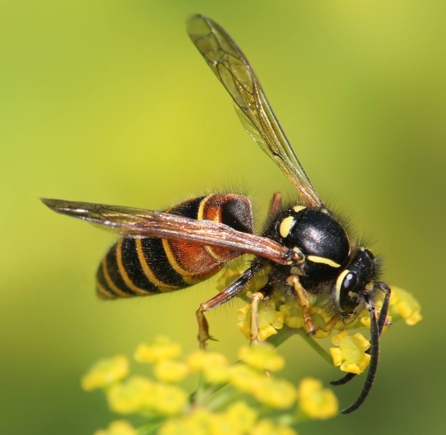 Description: Vespula, as shown a Red Wasp (Vespula rufa), is a small genus of social wasps, widely distributed in the Northern Hemisphere